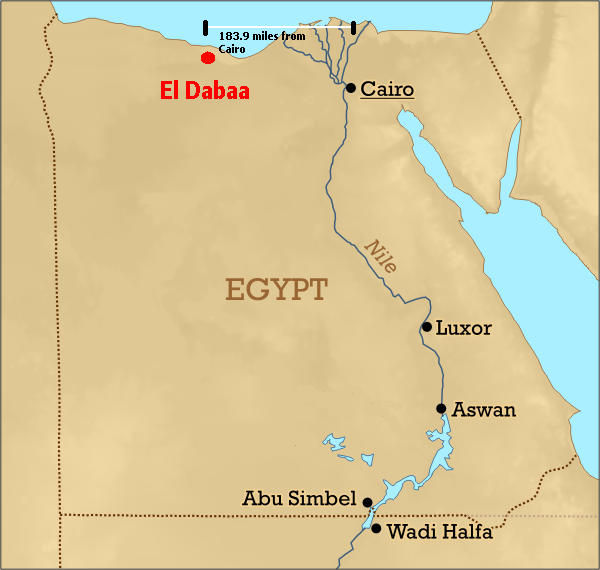 Location of El Dabaa village on the map of Egypt (red dotted) (Distance apart mentioned)[1]